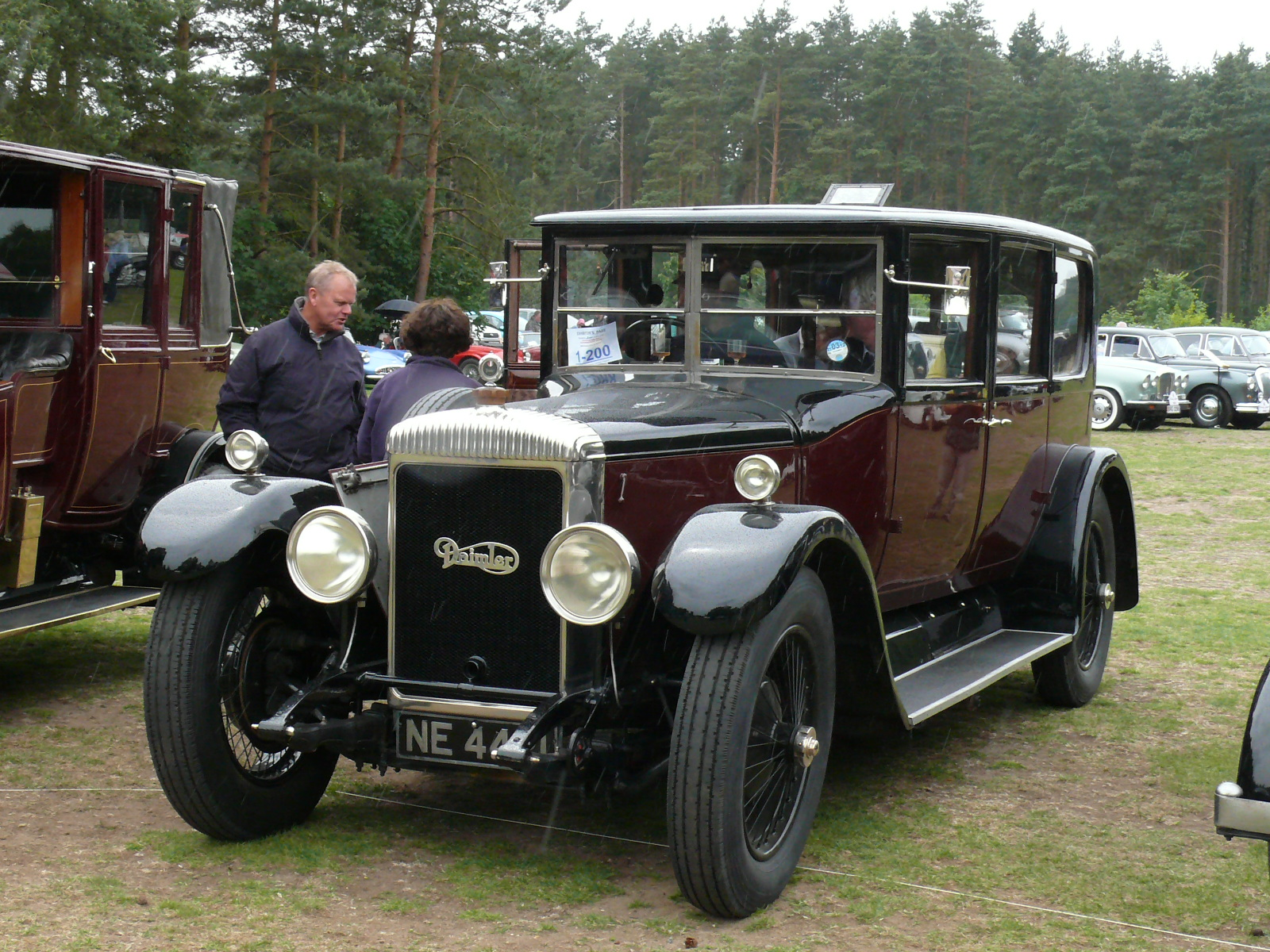 Daimler 30hp 1925 R16-30 [NE 4421] Daimler & Lanchester Owners Club, International Rally, Queen's Birthday weekend, Sandringham, Norfolk Sunday 12 June 2011 (DVLA) 5764cc, reg 31 October 1925 Note that a 5764 cc engine would make this a 35 not a 30 but the engine may have been changed